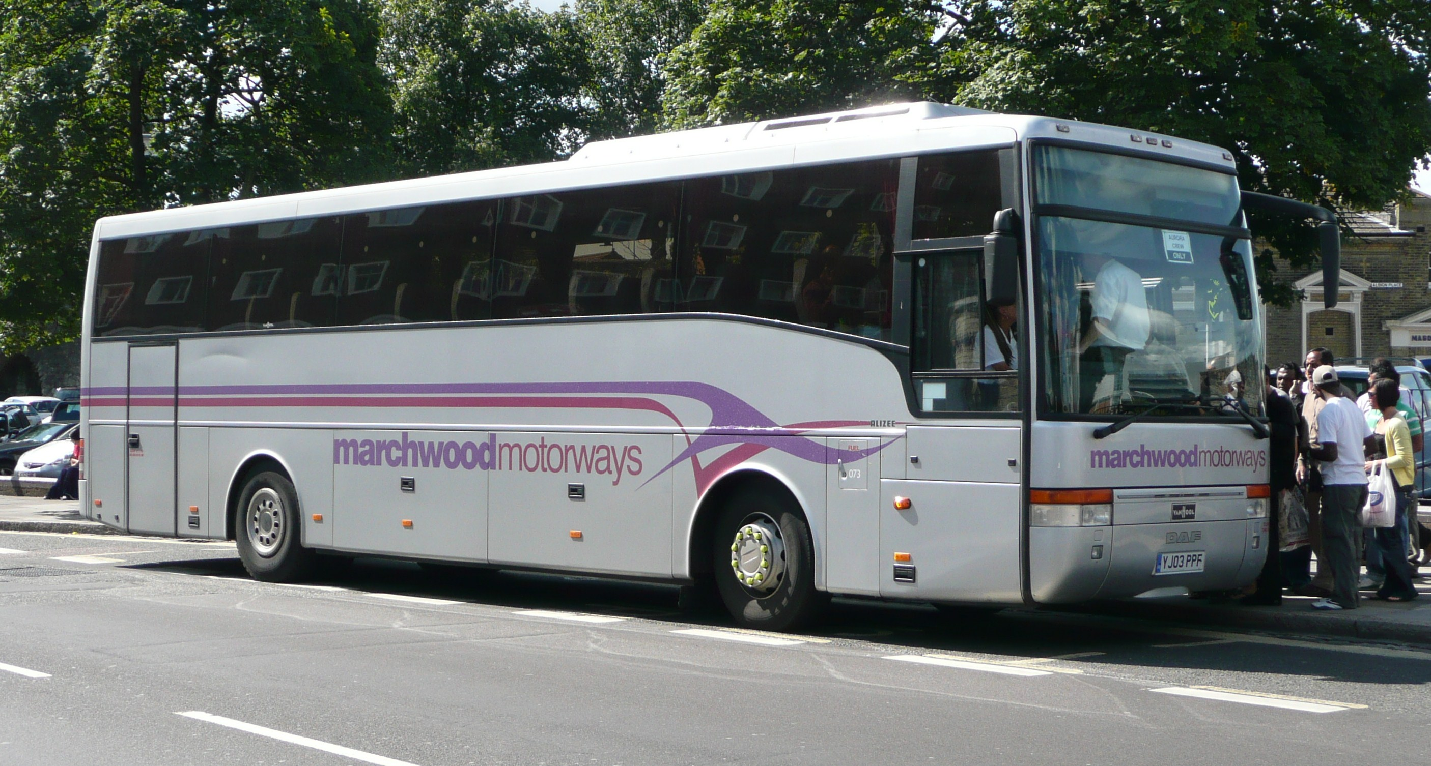 Van Hool Alizée coach (073; reg. YJ03 PPF) operated by Marchwood Motorway is Southampton on "Cruise Crews" work.